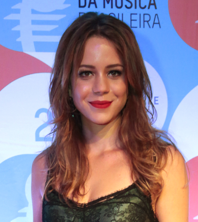 Brazilian actress Leandra Leal in 2014.